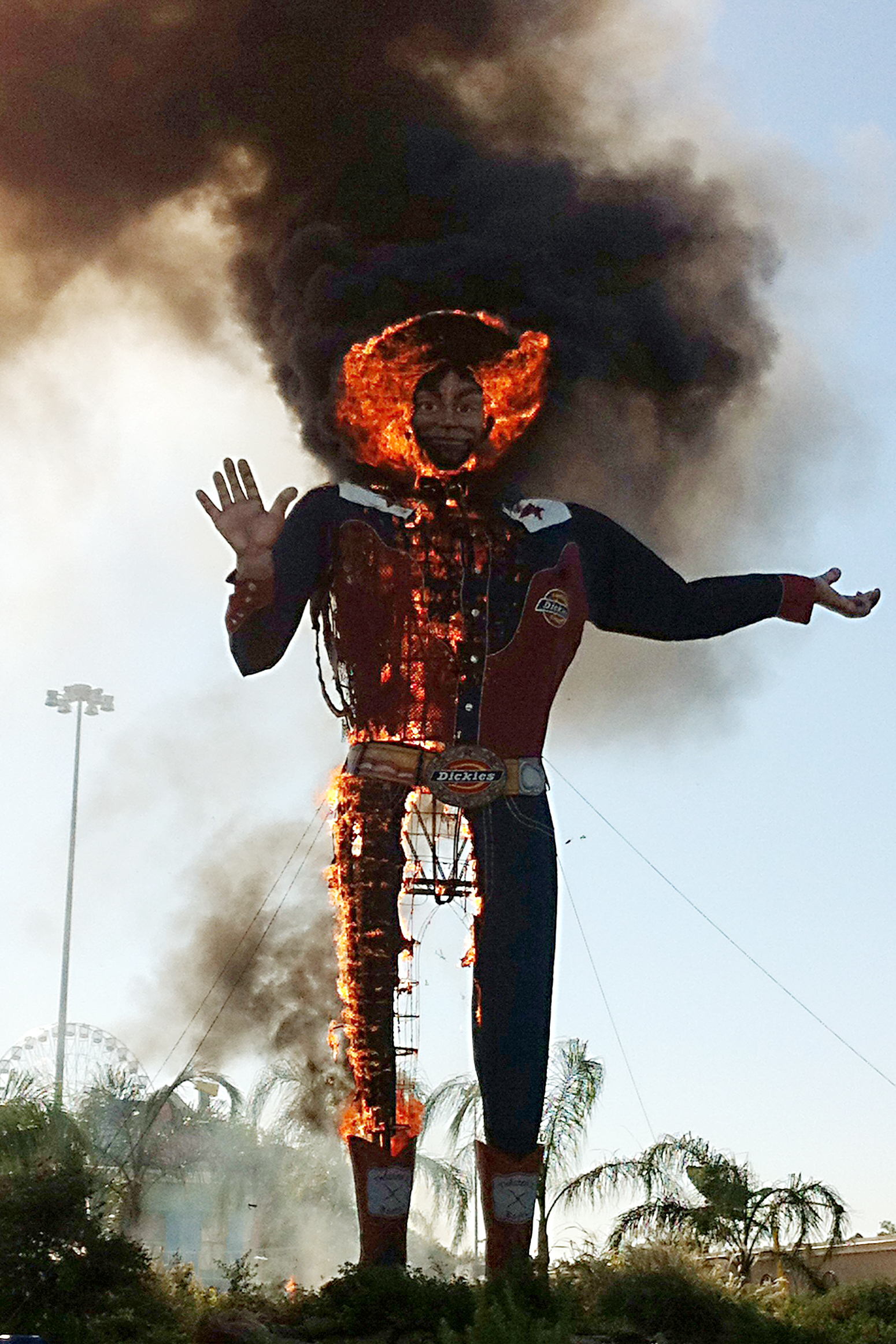 Big Tex fire on 19 October 2012 in Fair Park, Dallas, Texas.